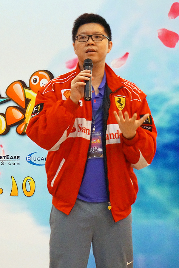 Tommy Wang, Chinese director, scriptwriter and programmer, the founder of Guangzhou Bluearc Animation Studios.